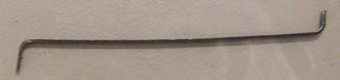 Hook